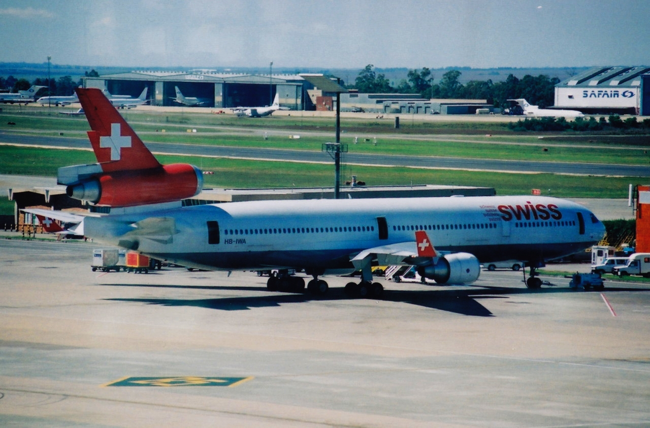 Swiss MD-11 HB-IWA